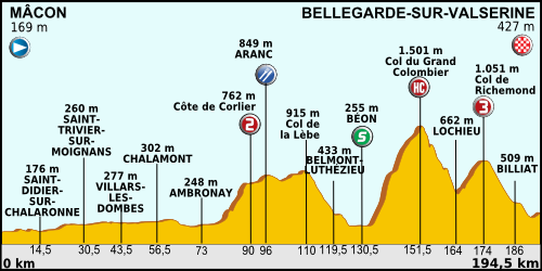 Profil of the 10th stage of the Tour de France 2012